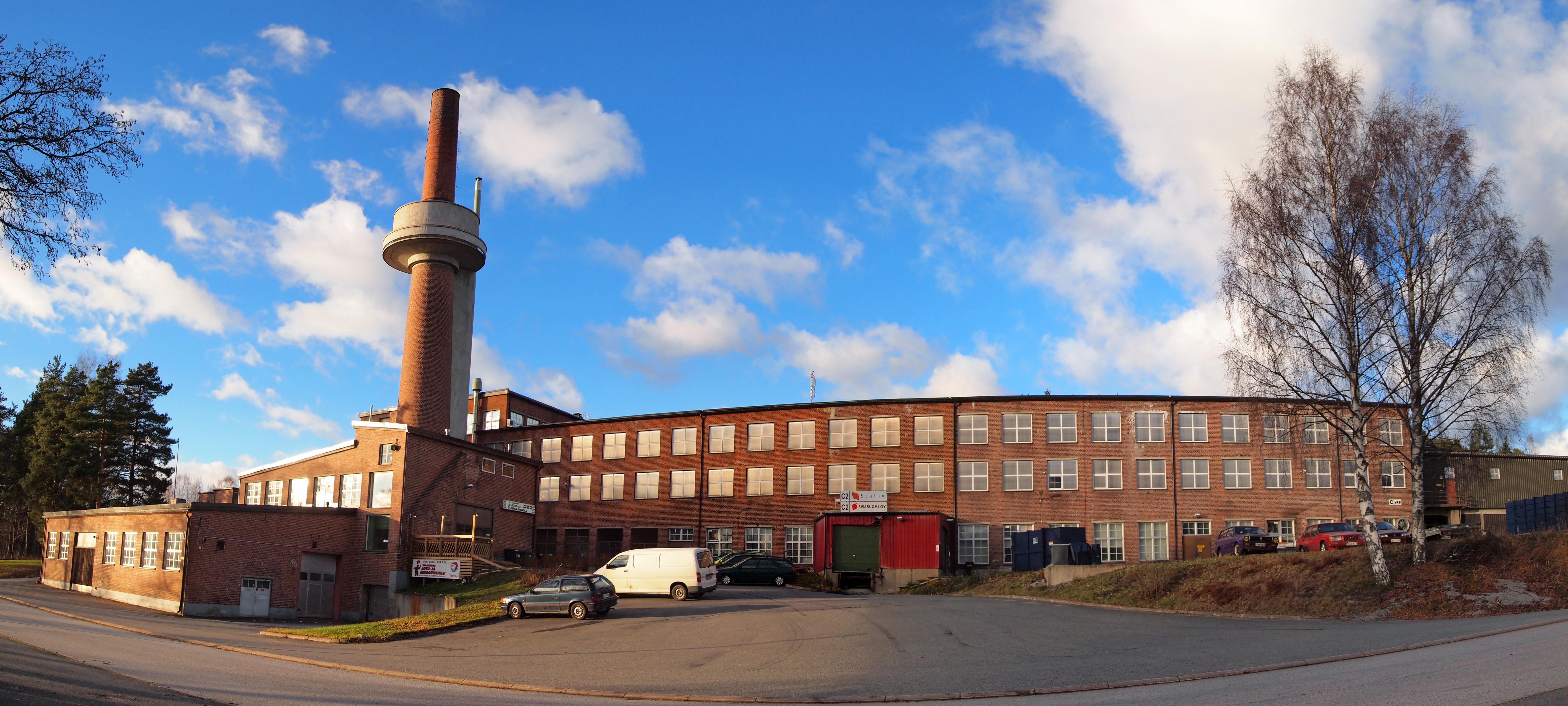 Industrial building "Vaajakosken teollisuustalo" in Tölskä, Jyväskylä.